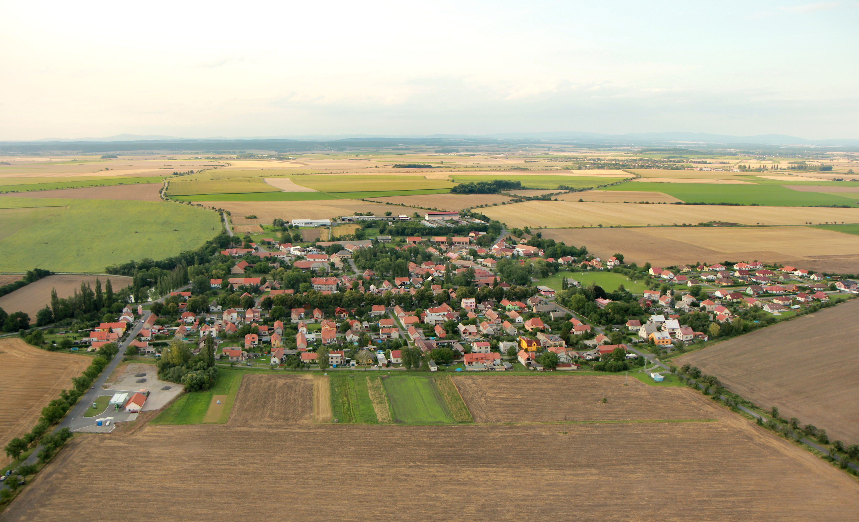 West view of Bobnice village, Czech Republic